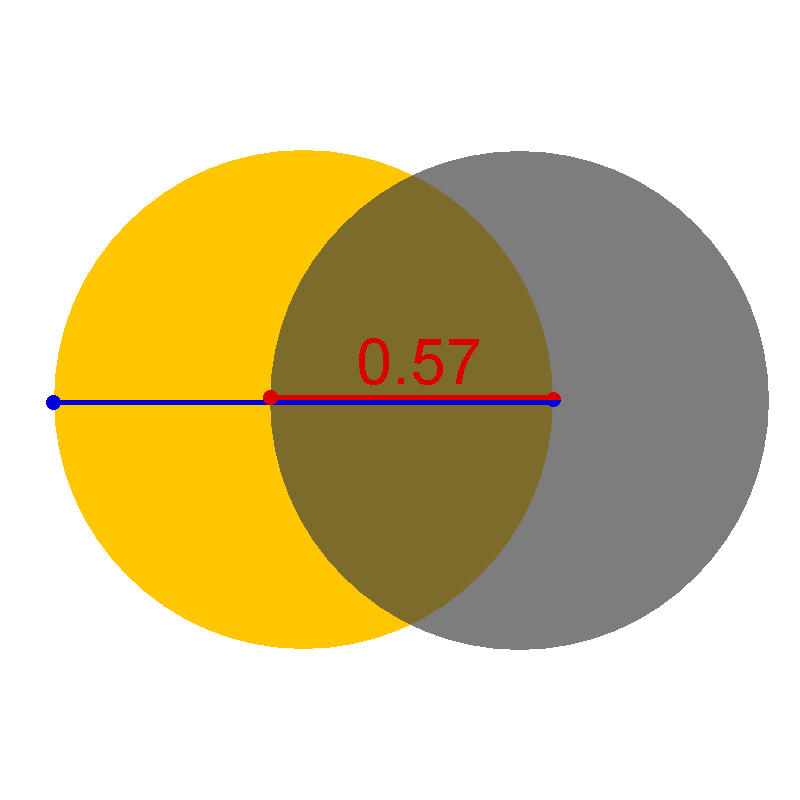 The magnitude of a partial solar eclipse is the fraction of the Sun's diameter covered by the Moon.